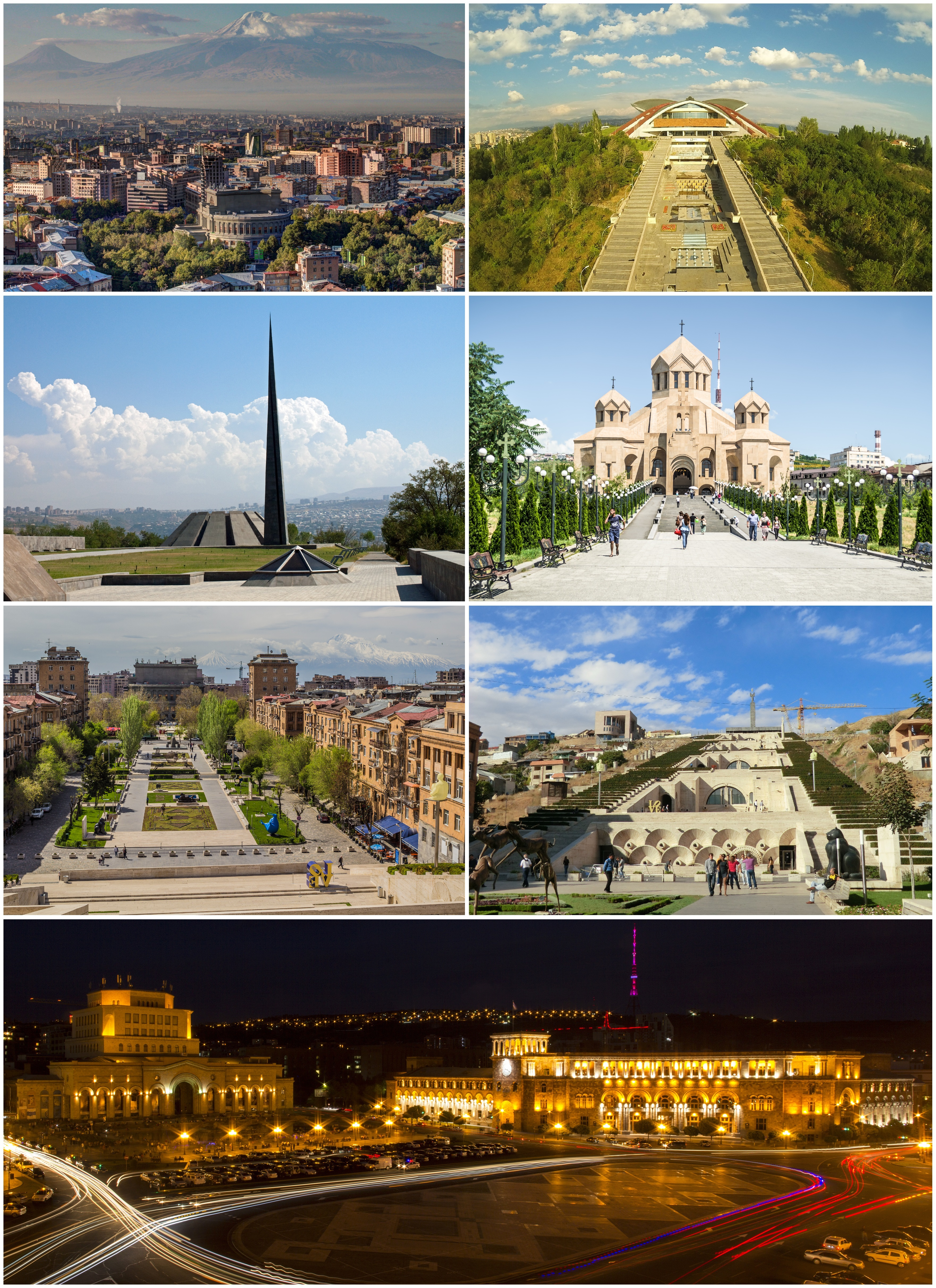 Montages of photos of Yerevan, Armenia.